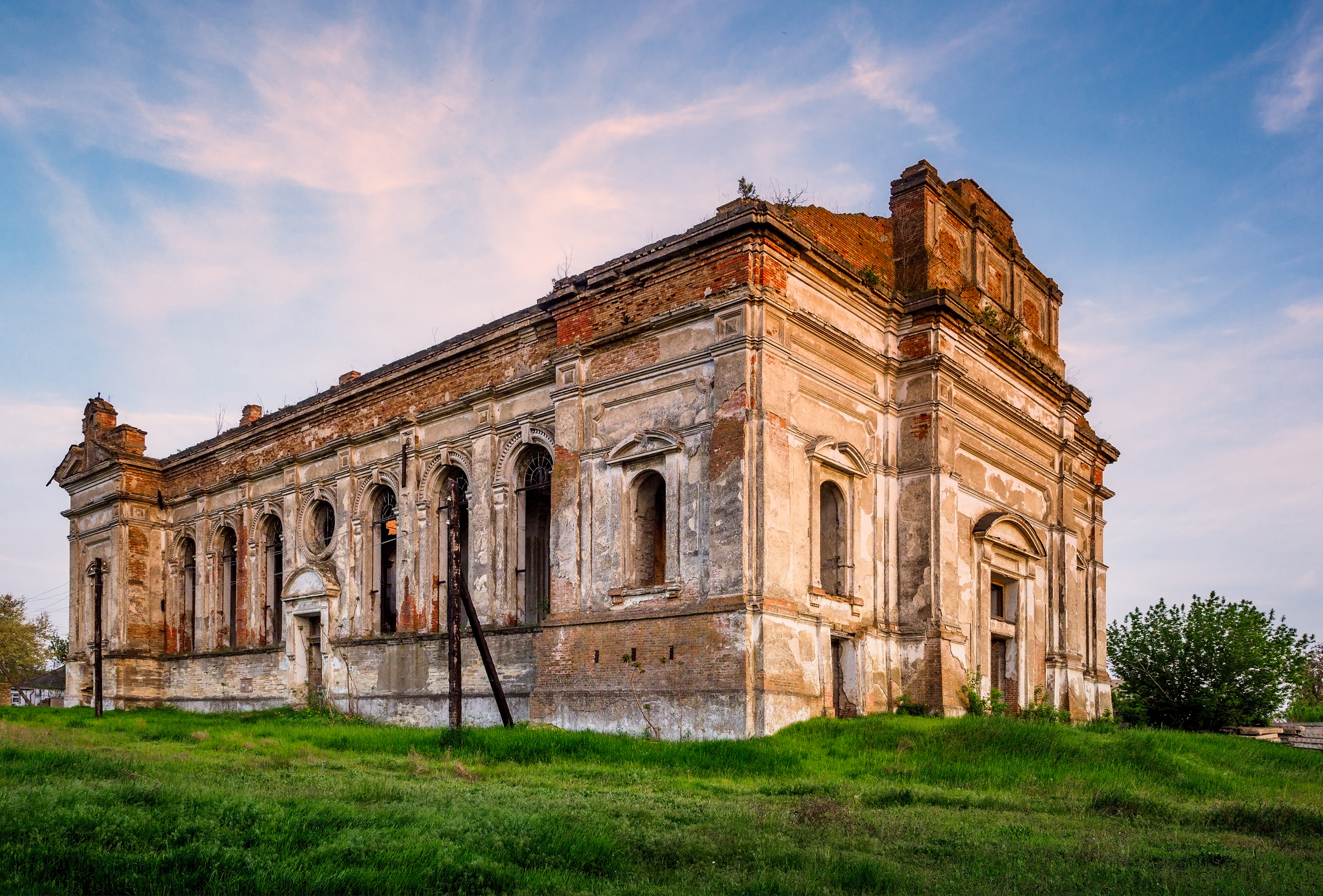 Church of the Assumption of Our Lady in Lymanske, Odesa Oblast, Ukraine